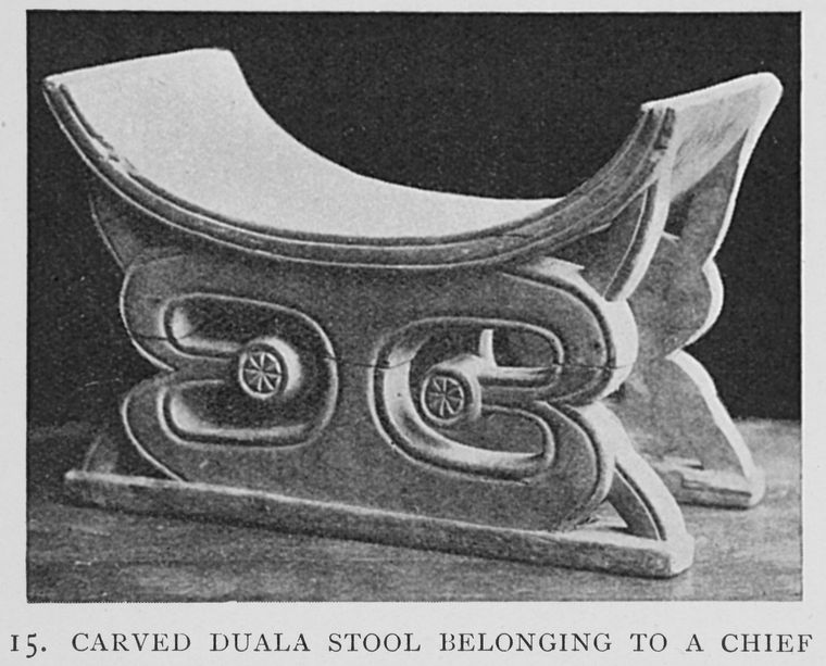 Carved Duala stool belonging to a chief. From George Grenfell and the Congo; a history and description of the Congo Independent State and adjoining districts of Congoland, together with some account of the native peoples and their languages, the fauna and flora; and similar notes on the Cameroons and the island of Fernando Po, the whole founded on the diaries and researches of the late Rev. George Grenfell, B.M.S., F.R.G.S.; and on the records of the British Baptist Missionary Society; and on additional information contributed by the author, by the Rev. Lawson Forfeitt, Mr. Emil Torday, and others, by Sir Harry Johnston, Volume I (published 1908).